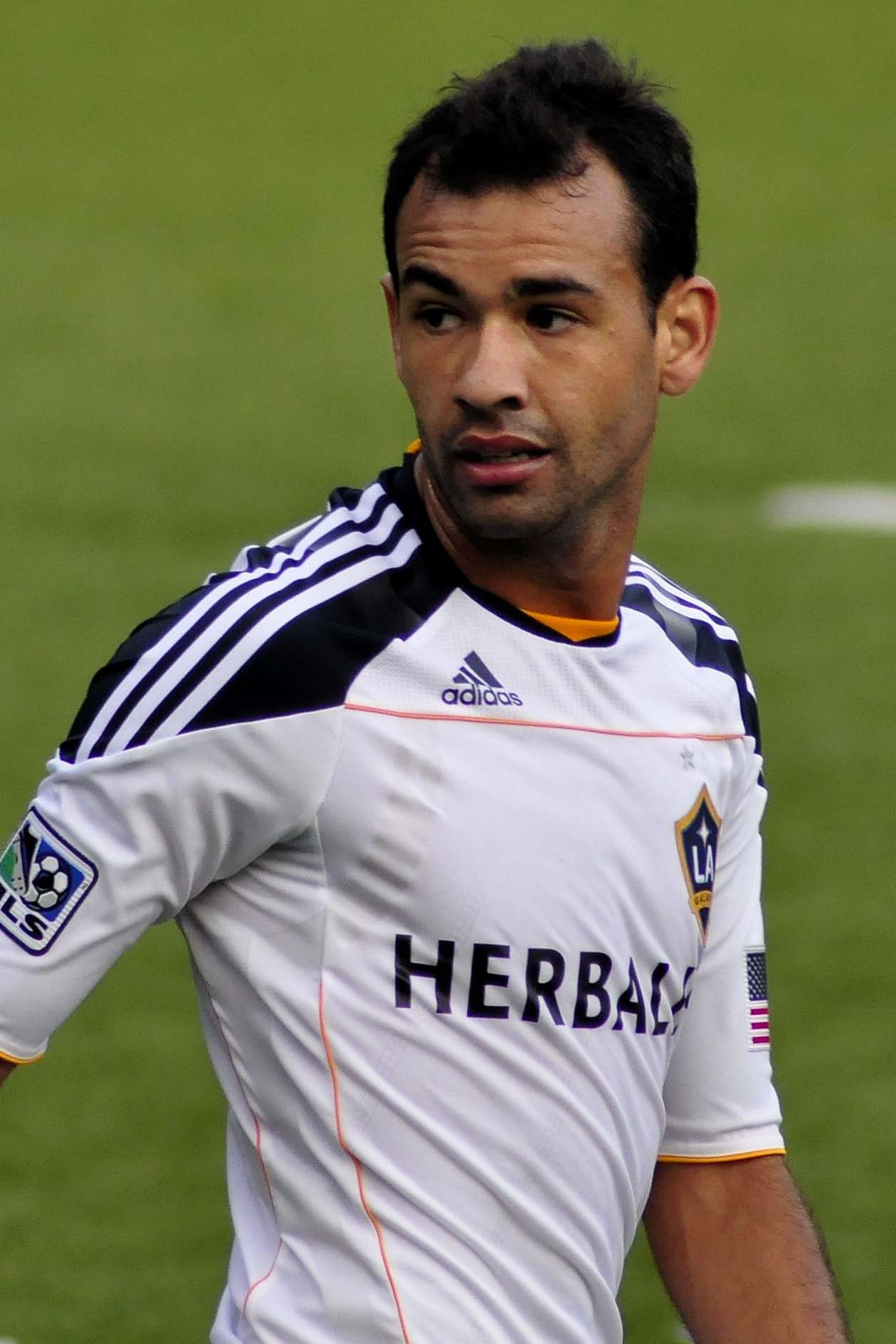 Juninho (Vitor Gomes Pereira Junior) of the LA Galaxy in a US Open Cup match against the Seattle Sounders, 2011.